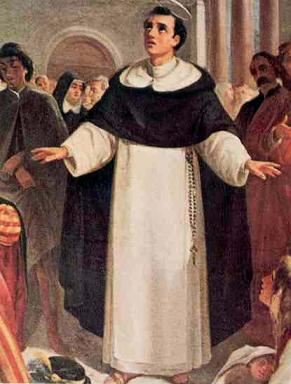 Agostino Biella